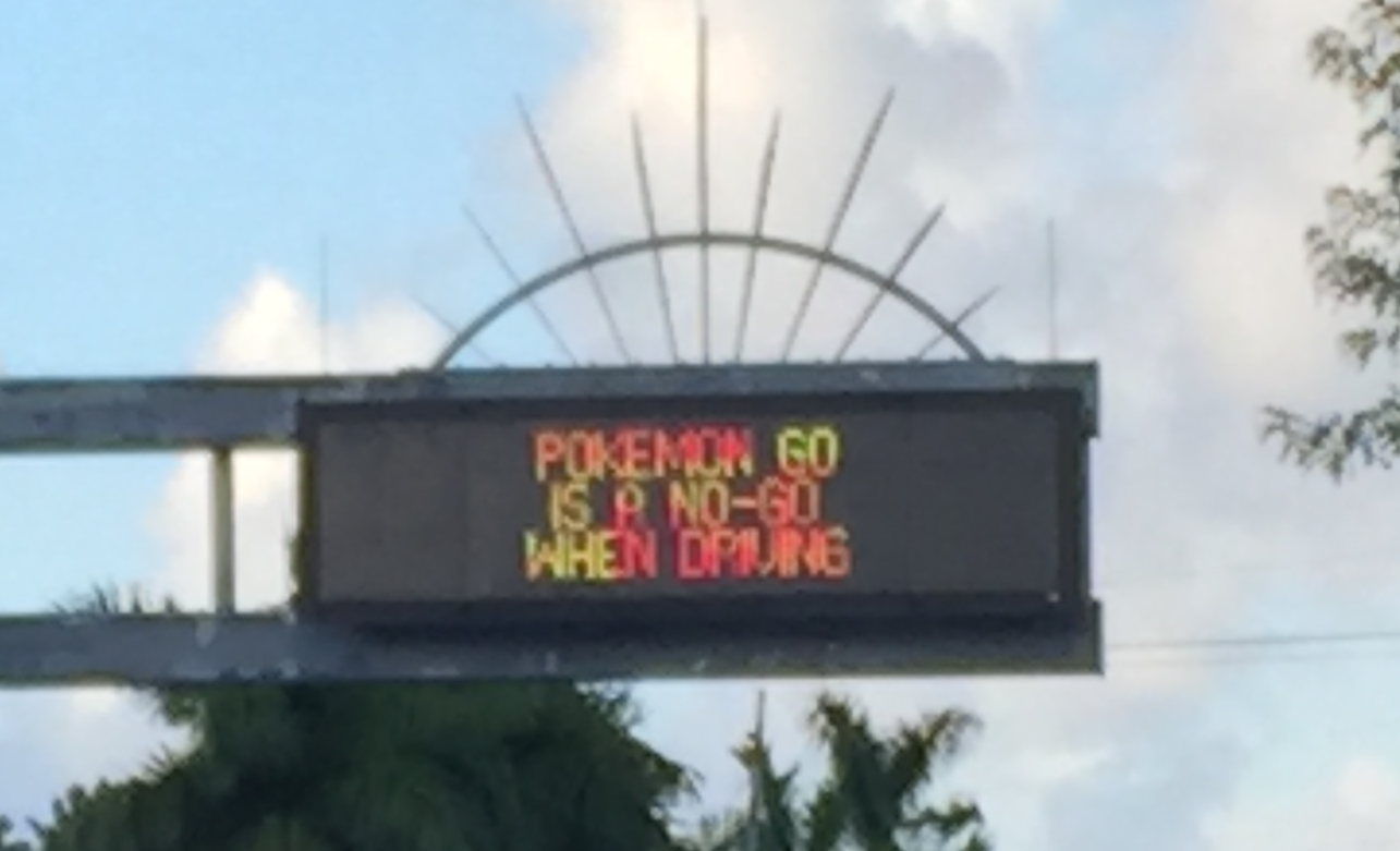 A Variable-message sign along NW 107th avenue near the intersection with NW 12th street in Fontainebleau, Florida, warning people to not play Pokémon Go while driving.